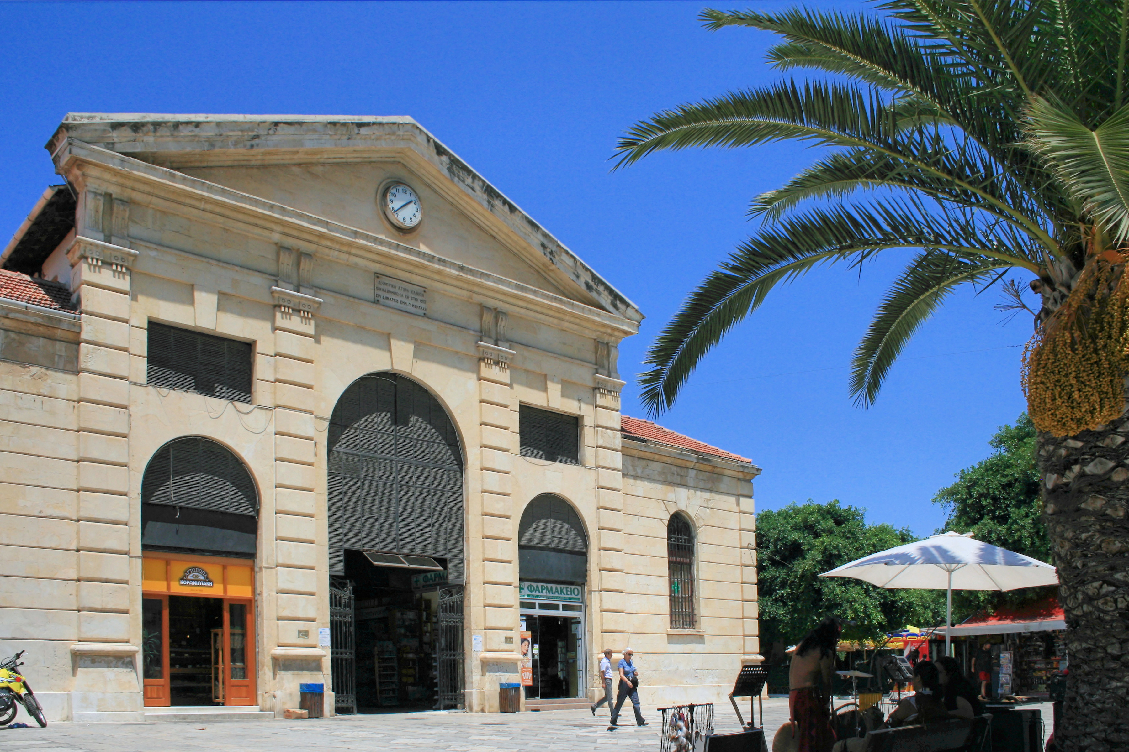 Chania on the island of Crete - The central market hall (Agora)